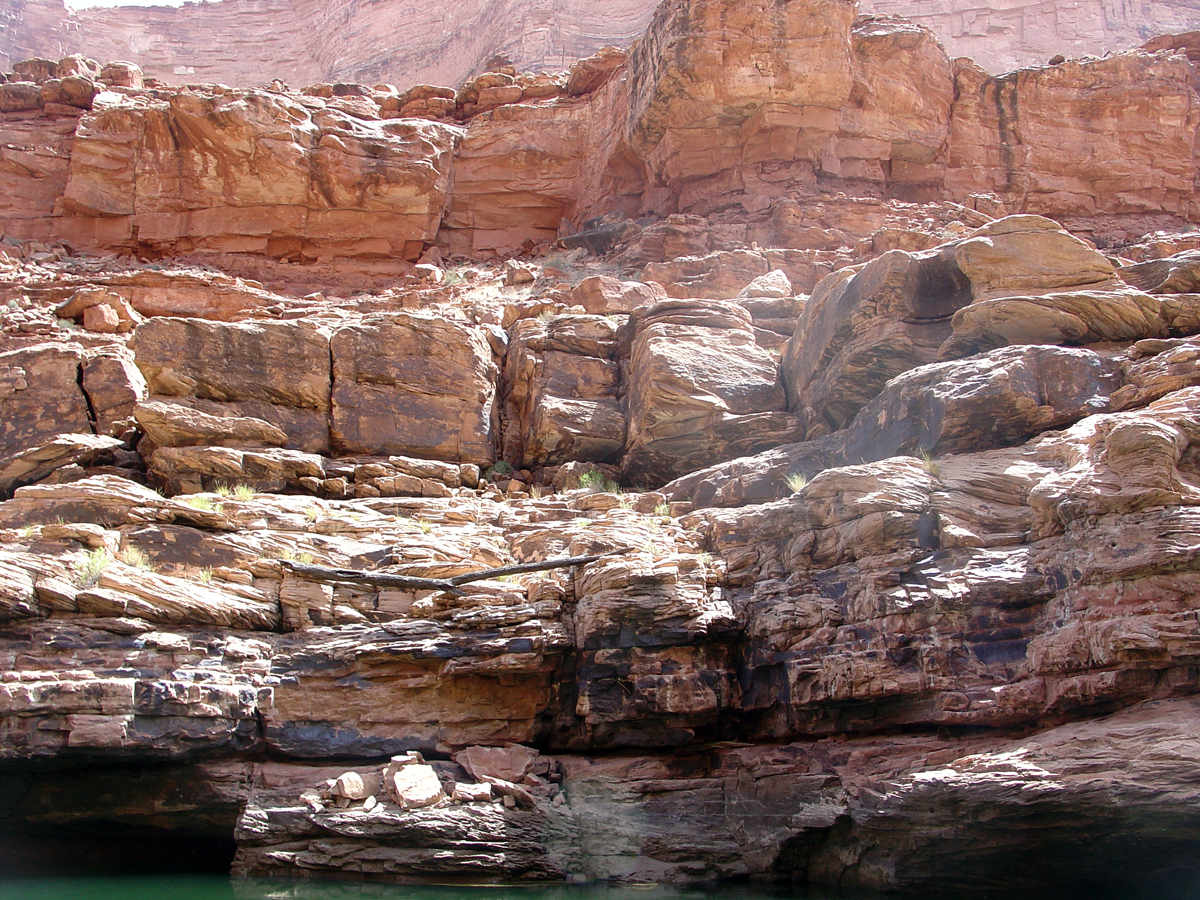 Supai Group in Grand Canyon at mile 13.5